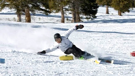 carving race